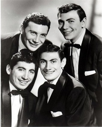 The Ames Brothers